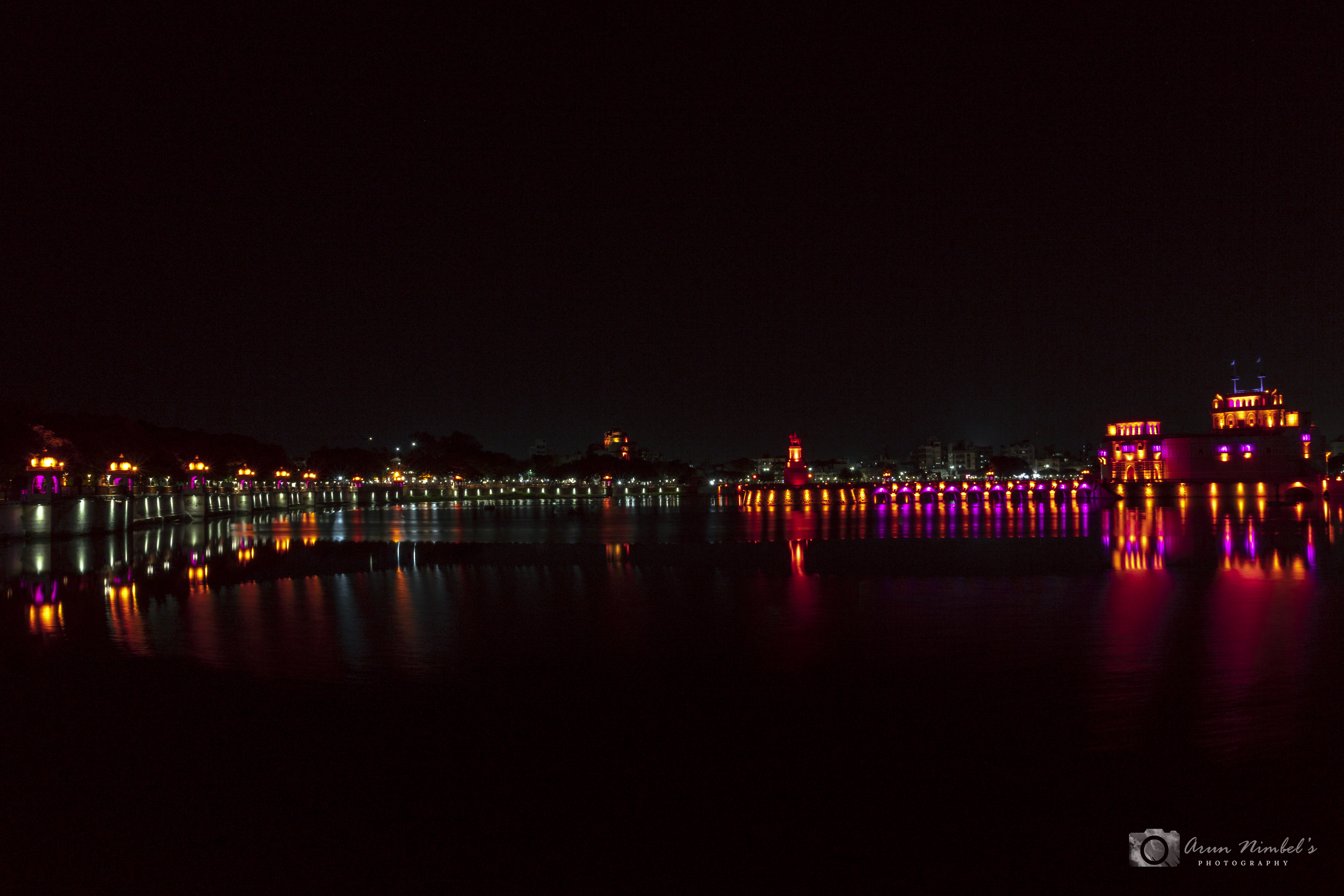 Lakota lake is situated in the center of Jamnagar City. it is the main attraction of this city.